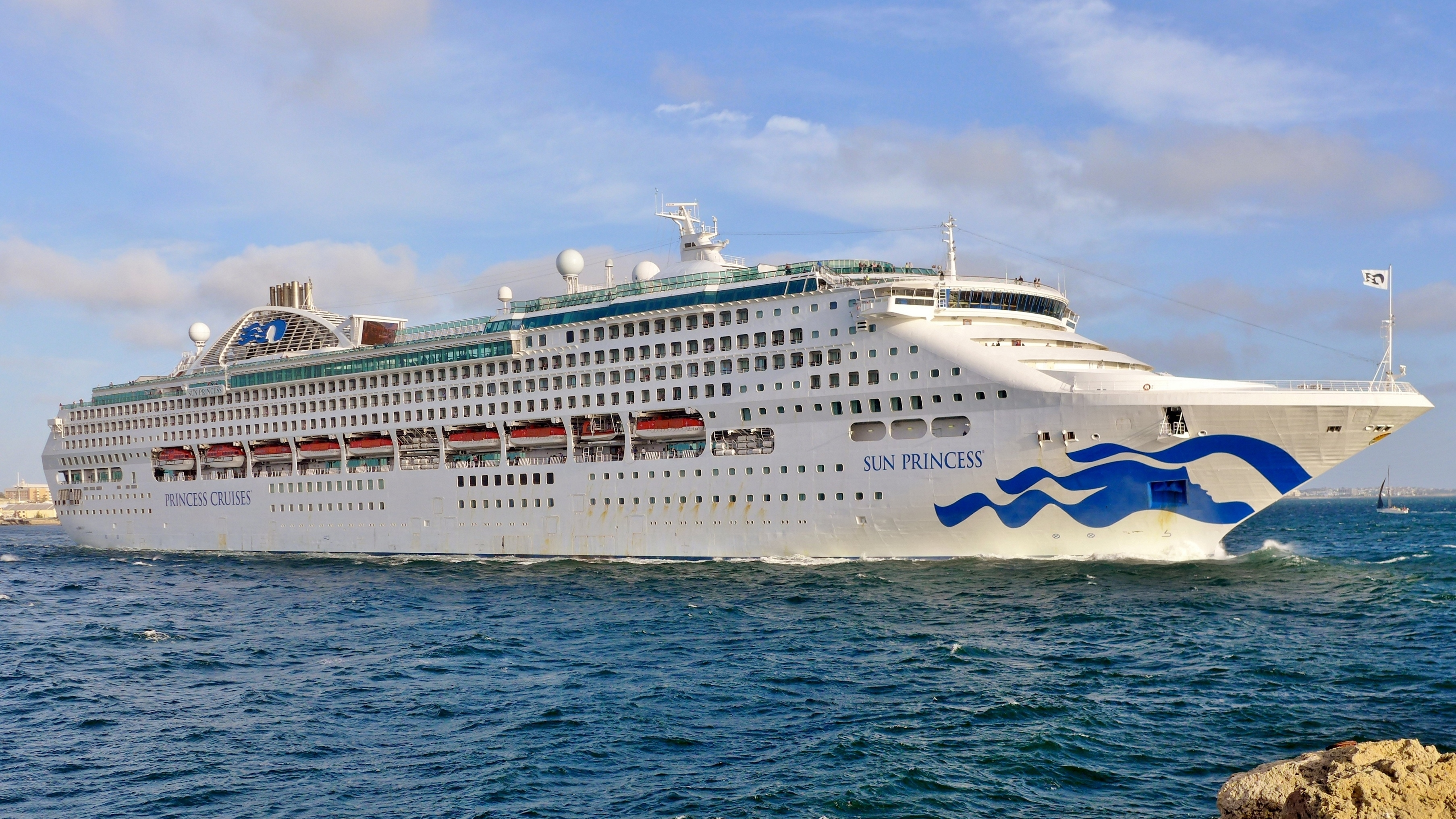 Cruise ship Sun Princess departing from Fremantle Harbour, Western Australia, on Northern Cruise (s847a) to Brisbane